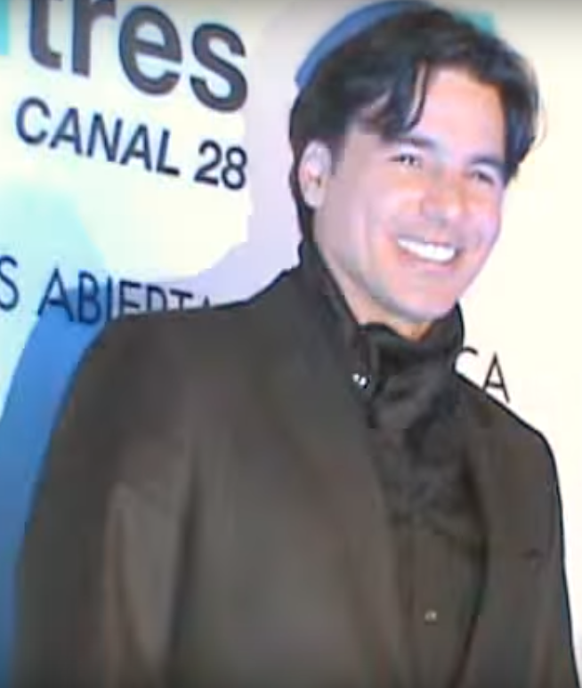 Juan Carlos Garcia in 2013